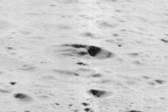 Oblique view of Golovin, on the far side of the moon, facing west.